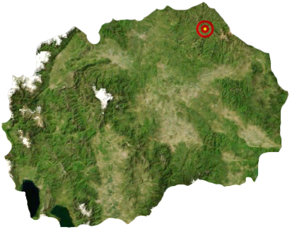 Location map of Kriva Palanka, Republic of Macedonia.